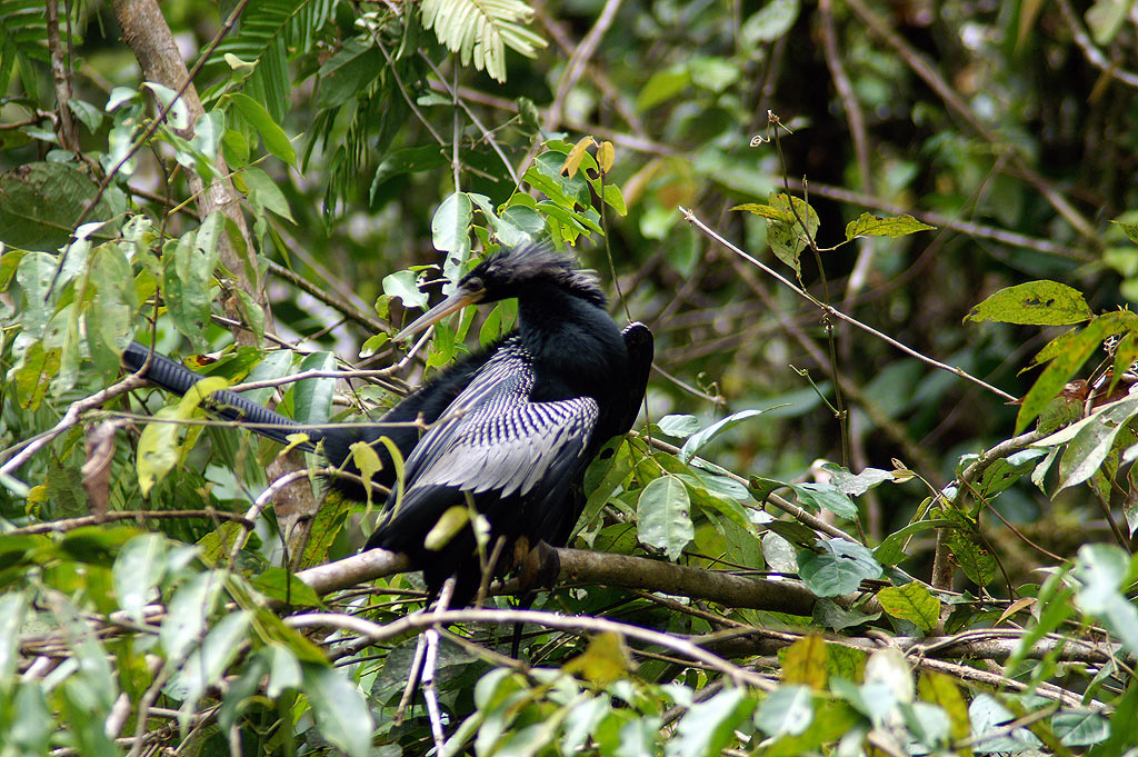 American darter, Anhinga